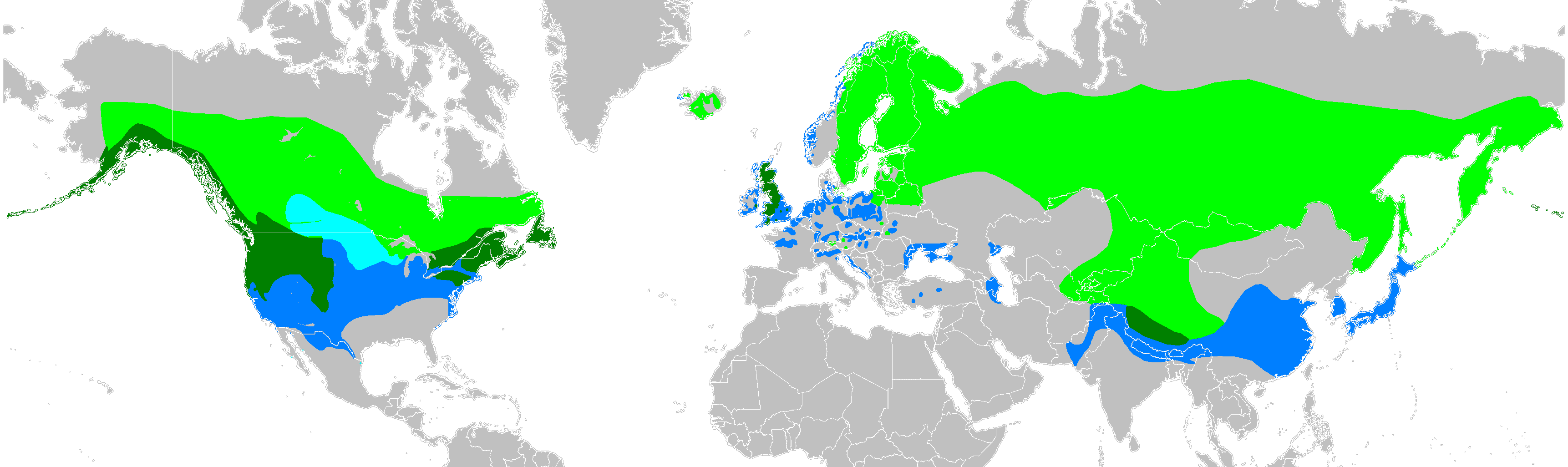 Distribution map of goosander (Mergus merganser) according to IUCN version 2019-2 ; key: Legend: Extant, breeding (#00FF00), Extant, resident (#008000), Extant, passage (#00FFFF), Extant, non-breeding (#007FFF)